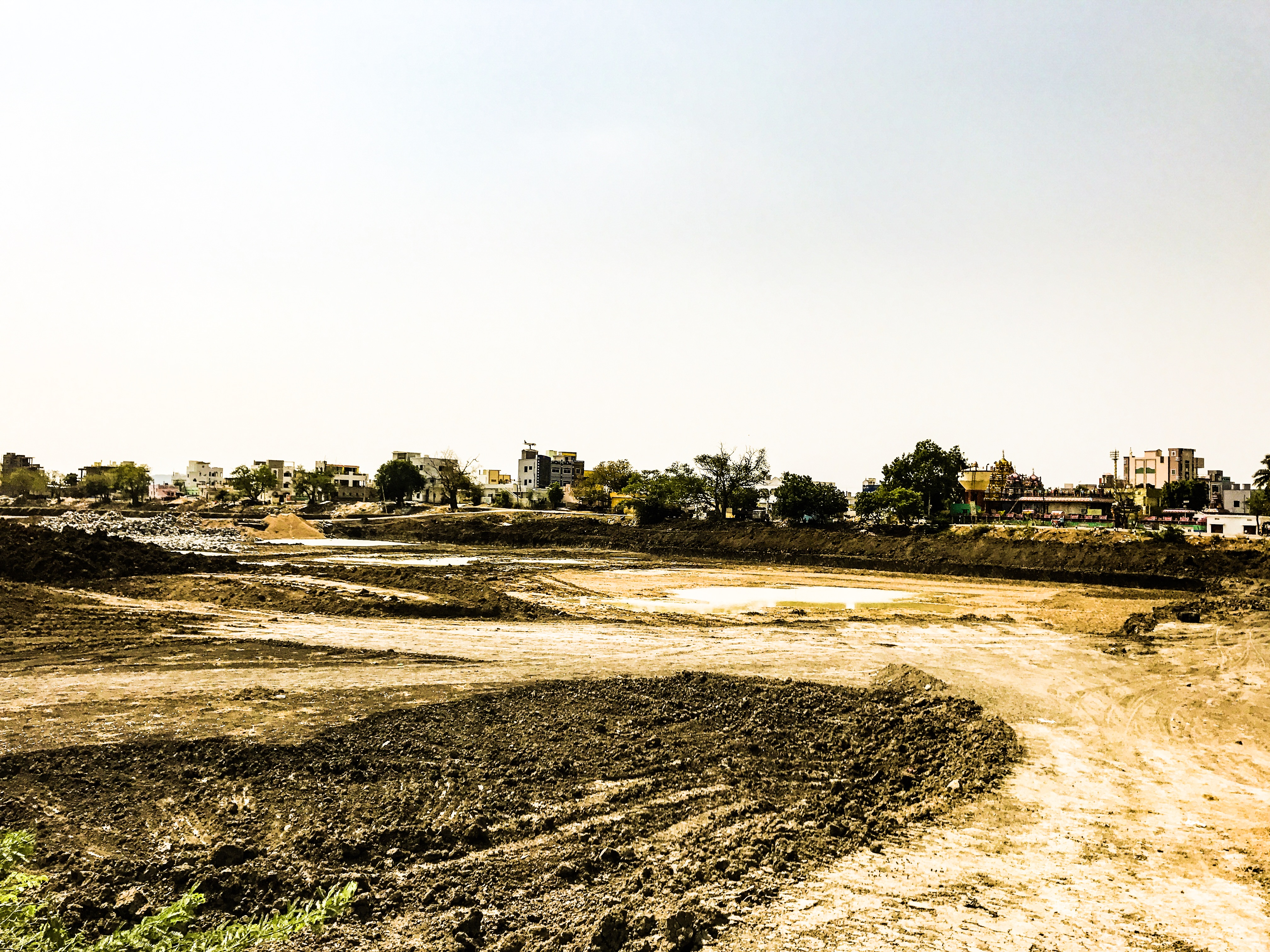 Dondapadu village near Amaravati